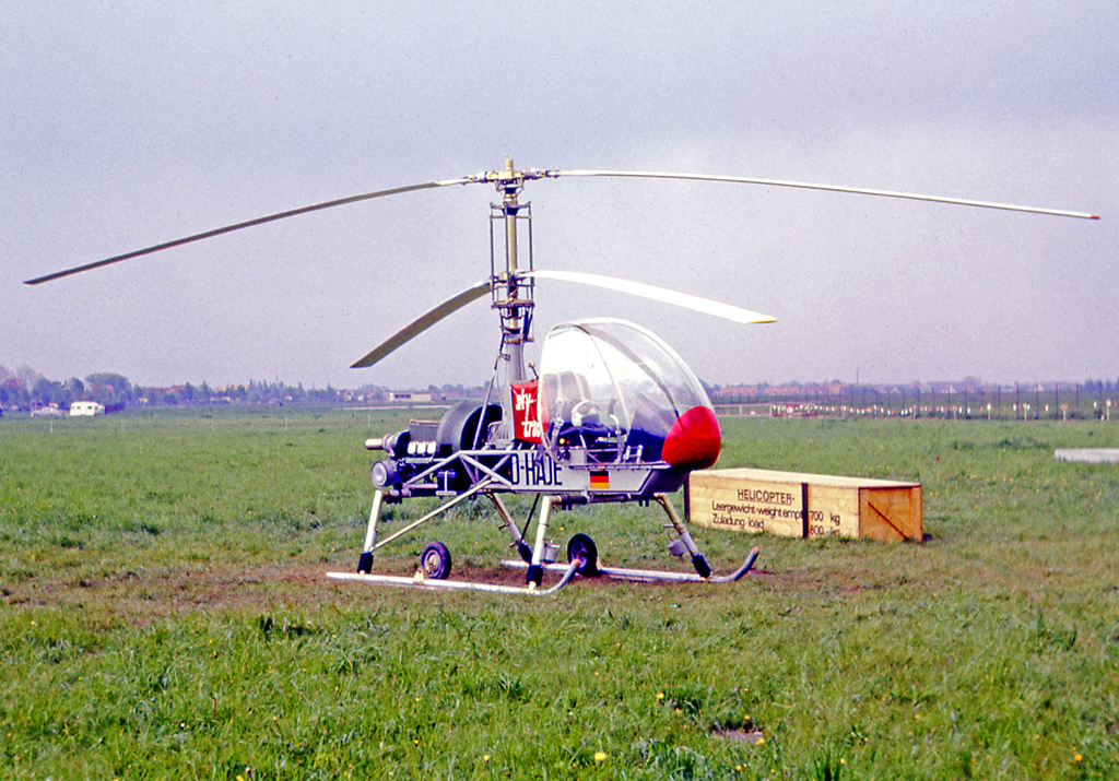 Wagner Skytrac 1 D-HAJE prototype single seat helicopter at the 1966 Hanover Air Show